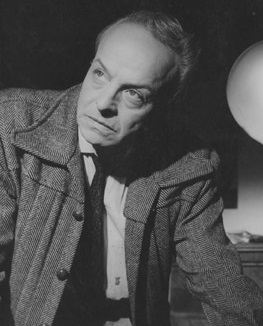 Daniel de Alvarado- actor